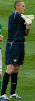 Dean Kiely. Image cropped from original at flickr.